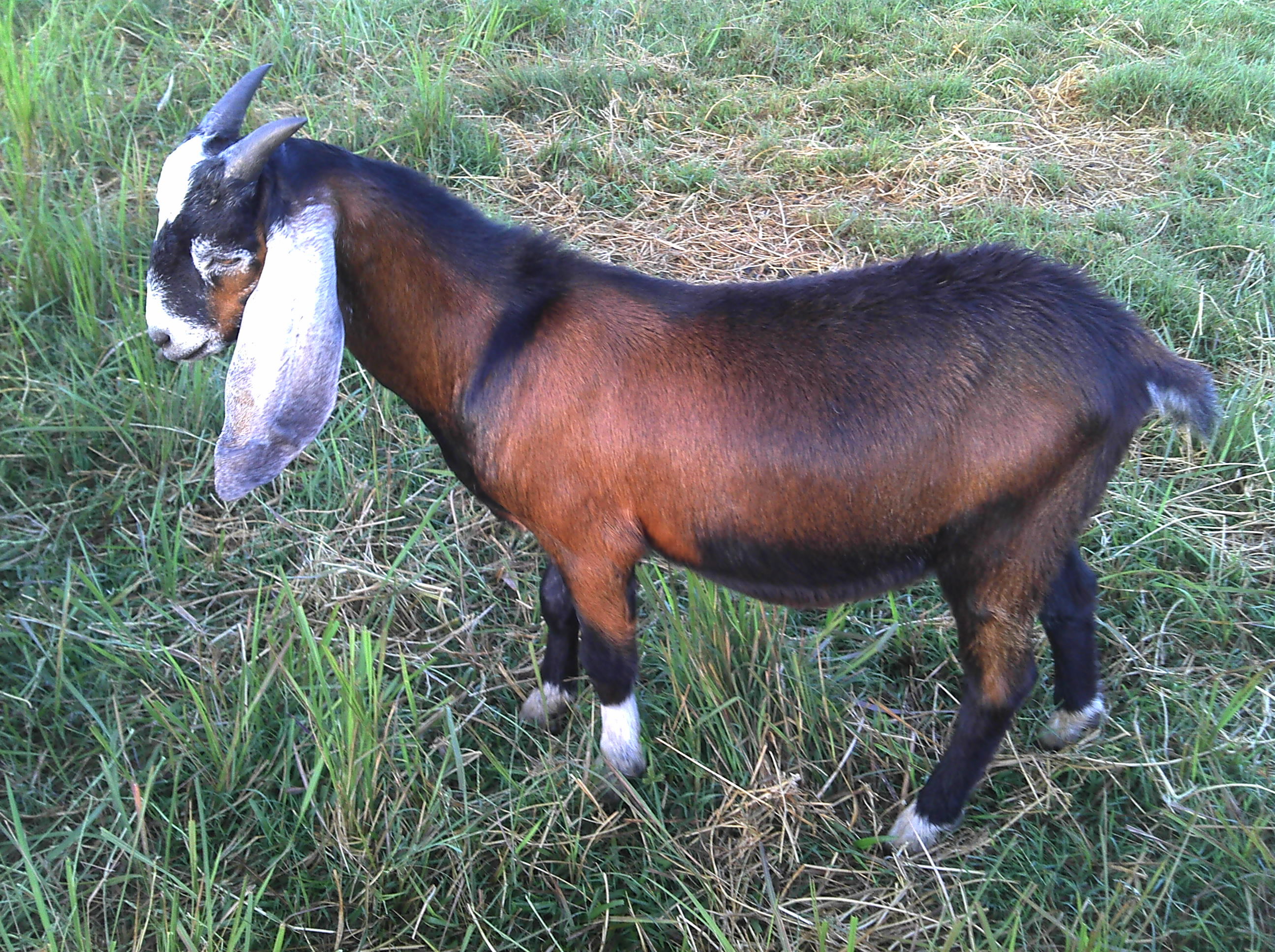 Charlie Goat (Pure Kalbian)